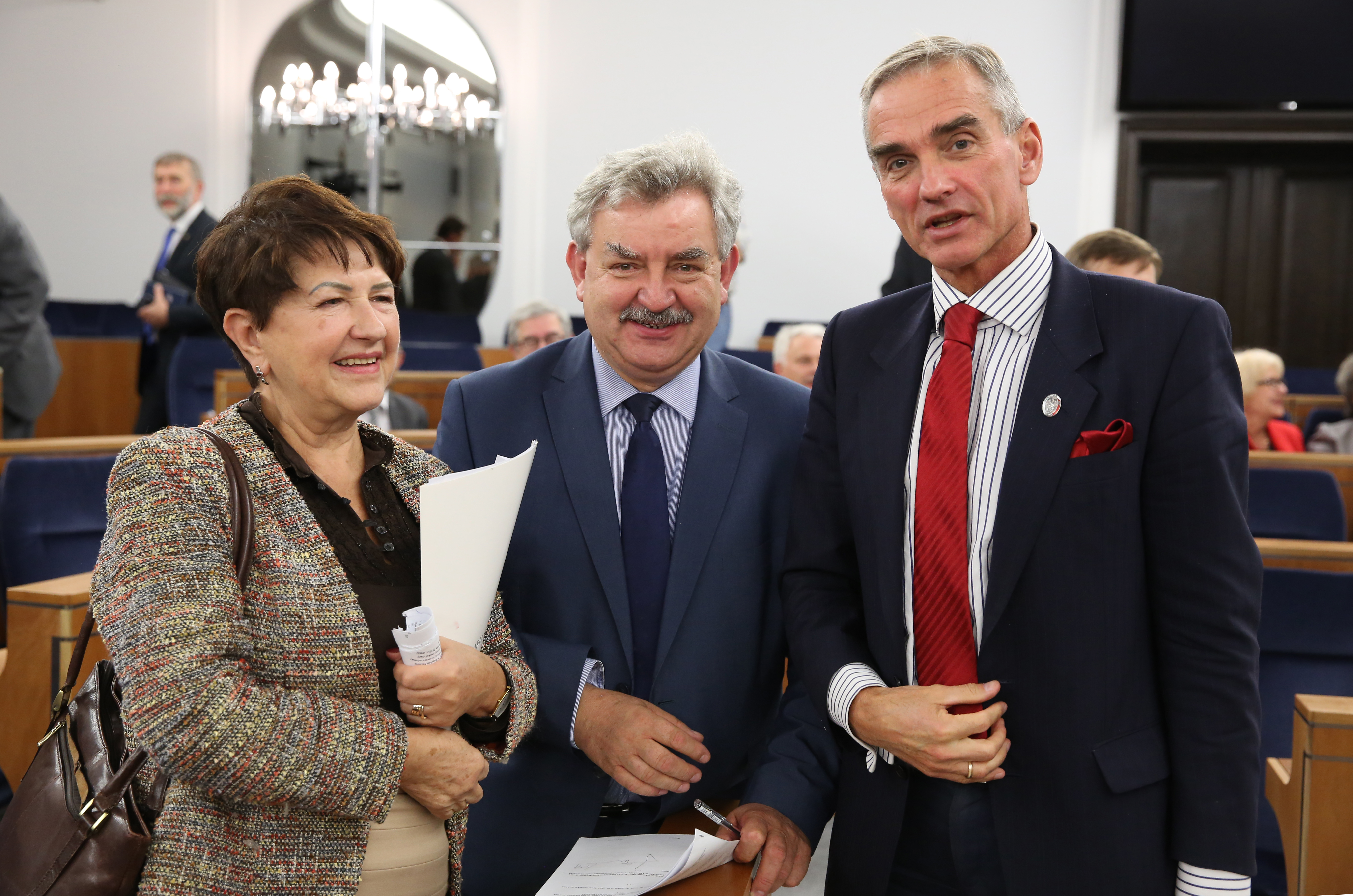 Senators Jadwiga Rotnicka, Kazimierz Kleina and Jan Maria Jackowski during 82nd sitting of the Polish Senate